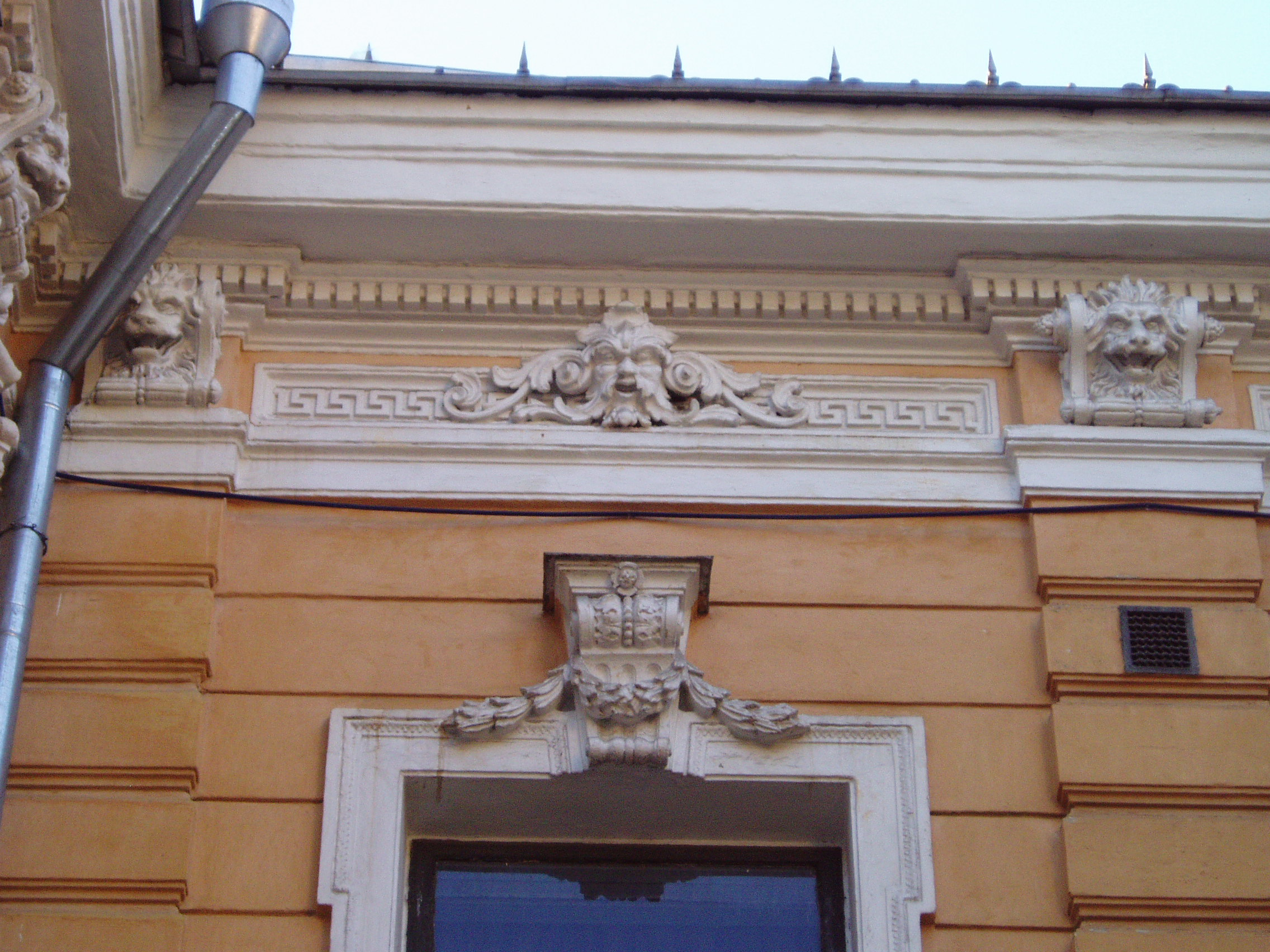 An architectural detail of Liberman manor in Kyiv